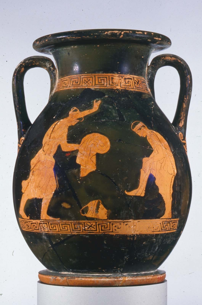 From MFA website: Two Handled jar (pelike) with Actors preparing for a Performance